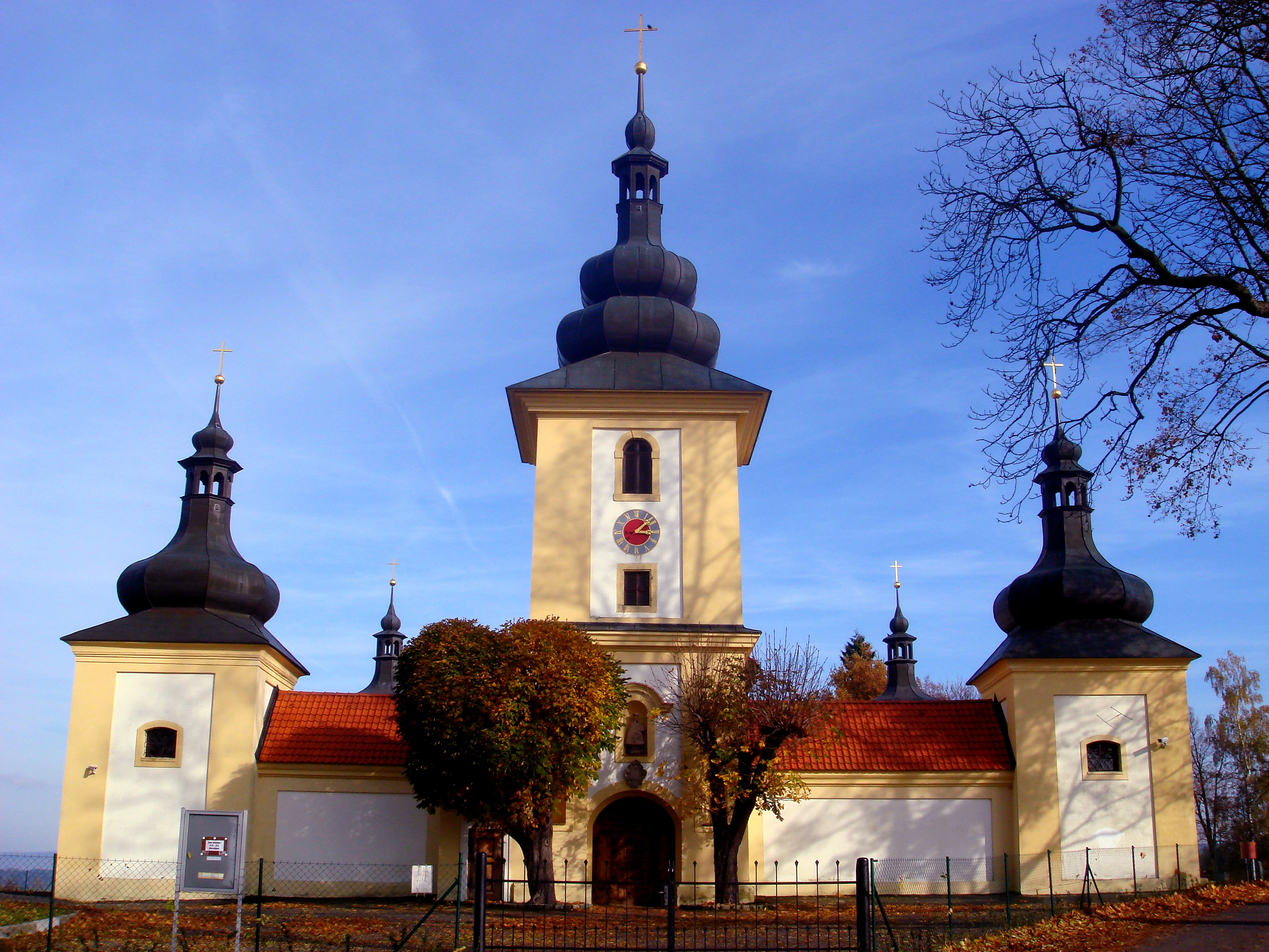 Loreto near Starý Hrozňatov (Cheb, Karlovy Vary Region, Czech Republic).